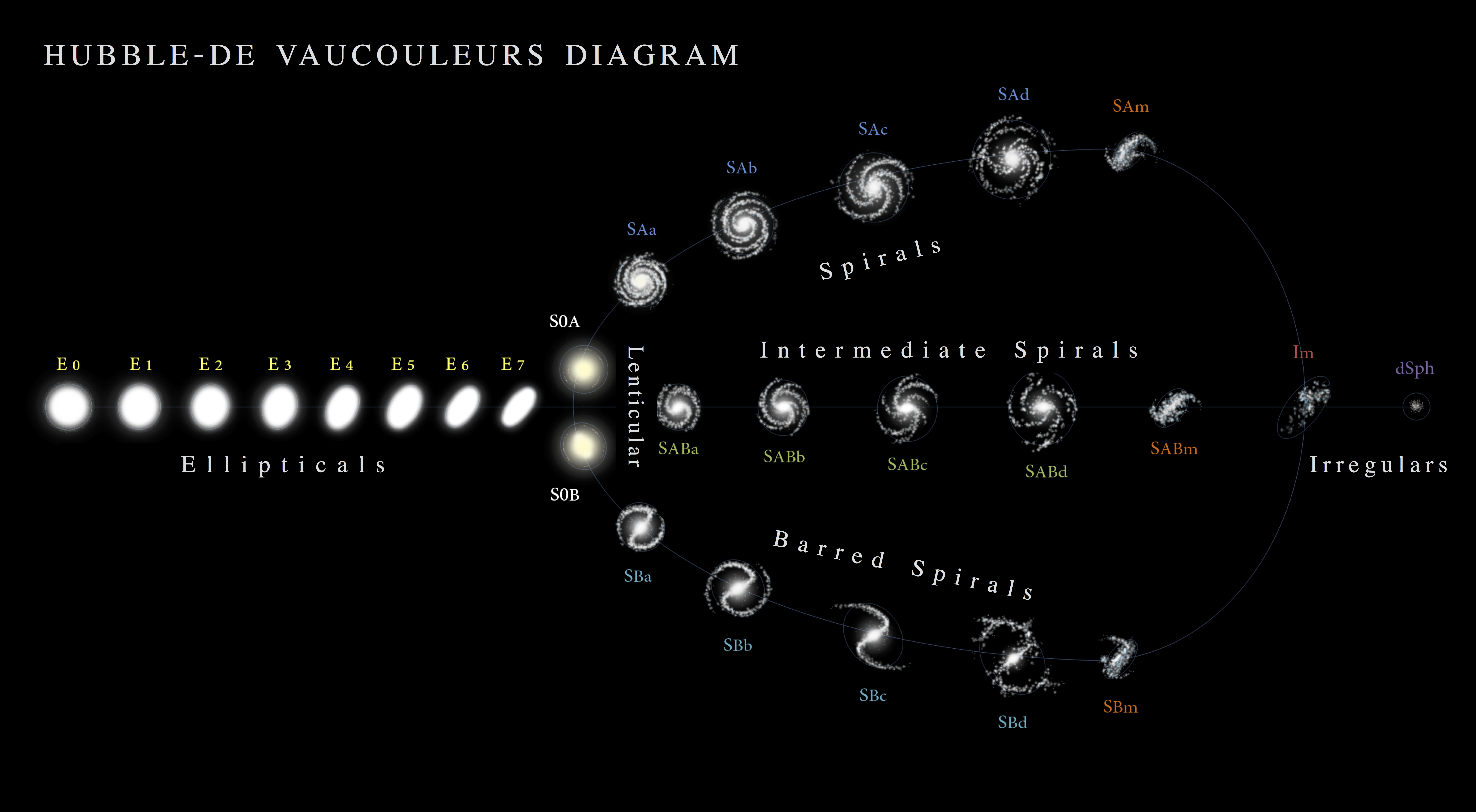 Hubble - de Vaucouleurs diagram for galaxy morphology featuring ellipticals, lenticulars, spirals, intermediate spirals, barred spirals and irregulars.